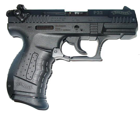 Walther P22 Note: I used PTlens to correct for barrel distortion and vingetting on the original picture. As a result, the image was cropped slightly. Hopefully, this improves on the original significantly enough to be worthwile. -- I am Asamuel (talk) 22:51, 6 May 2008 (UTC) Original upload log The original description page was here. All following user names refer to en.wikipedia. 2007-09-25 05:08 Davken1102 556×456×8 (46650 bytes) 2007-09-25 05:05 Davken1102 2048×1536×8 (338947 bytes) Walther P22